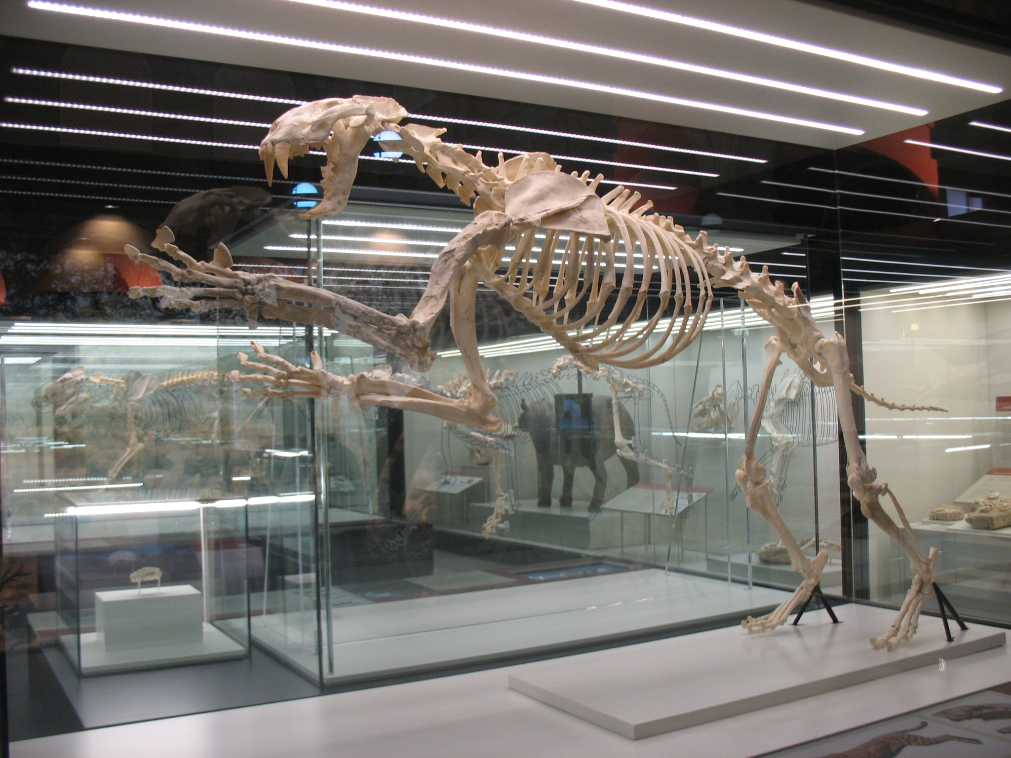 Reconstrucción del esqueleto completo de Machairodus aphanistus de Batallones 1, Torrejón de Velasco, Madrid, España. Exposición temporal "La colina de los tigres dientes de sable. Los yacimientos miocenos del cerro de los Batallones (Torrejón de Velasco, Comunidad de Madrid)" en el Museo Arqueológico Regional (MAR), Alcalá de Henares (Madrid)